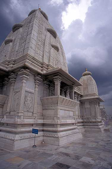 Birla Mandir in Hyderabad, India